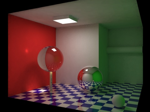 Global illumination illustration